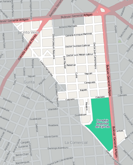 Street map of Jacinto Vera, Montevideo, exported from OpenStreetMap. I added shading to delimit the barrio. This map may be incomplete, and may contain errors. Don't rely solely on it for navigation.